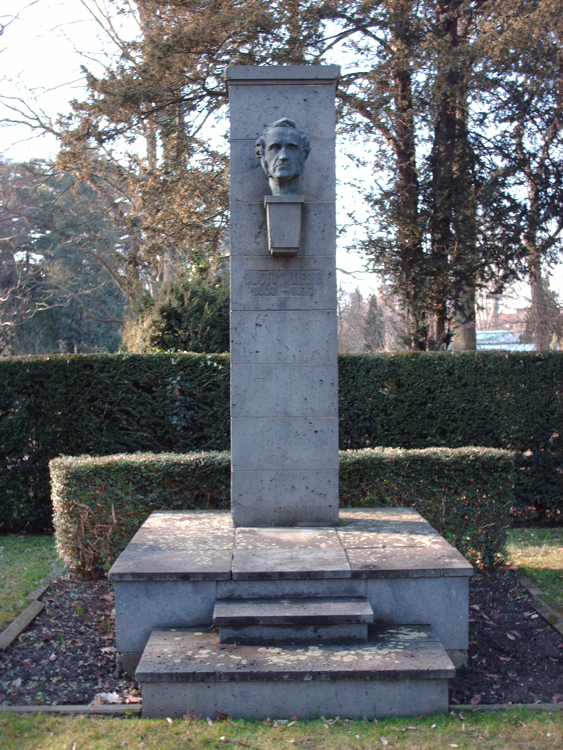 Liebig memorial, Gießen, Germany check usage